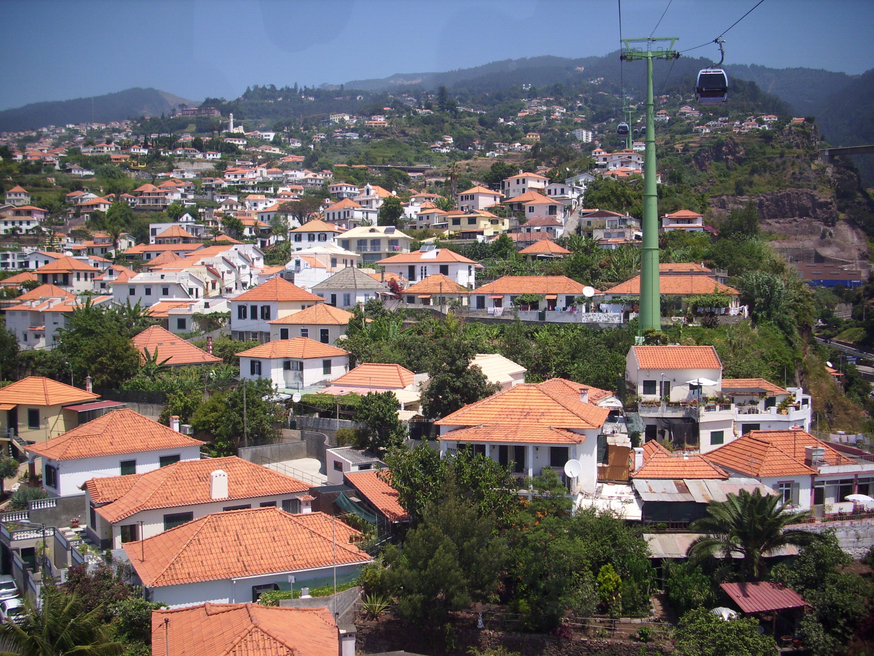 Taken in a gondola of the Funchal Passenger Ropeway (Madeira, Portugal) looking towards Monte.